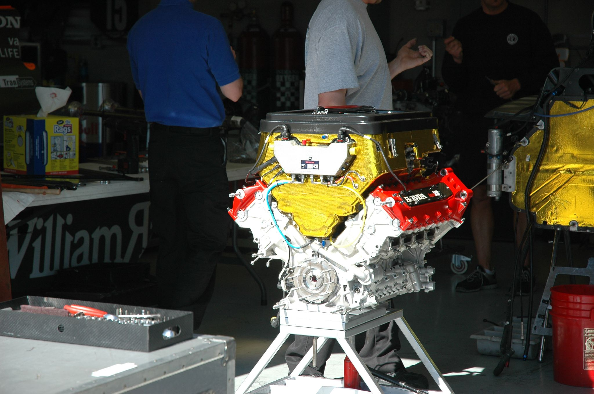 A Honda Indy V8 engine being prepared for the Indianapolis 500.